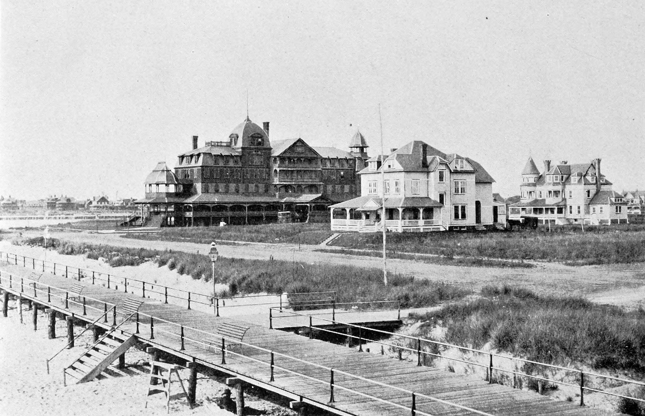 Title: Glimpses of New Jersey coast resorts. A collection of choice photographic views of Asbury Park, Ocean Grove, Avon, Belmar, Spring Lake, Sea Girt, Allenhurst, Interlaken, Deal, Elberon, Hollywood, Monmoutn Beach, Sandy Hook, etc Year: 1902 (1900s) Authors: Subjects: New Jersey -- Pictorial works Publisher: Asbury Park, N.J., M. W. & C. Pennypacker Text Appearing Before Image: Yachting. Text Appearing After Image: The Ocean Front, Avon-by-tlie-Sea.